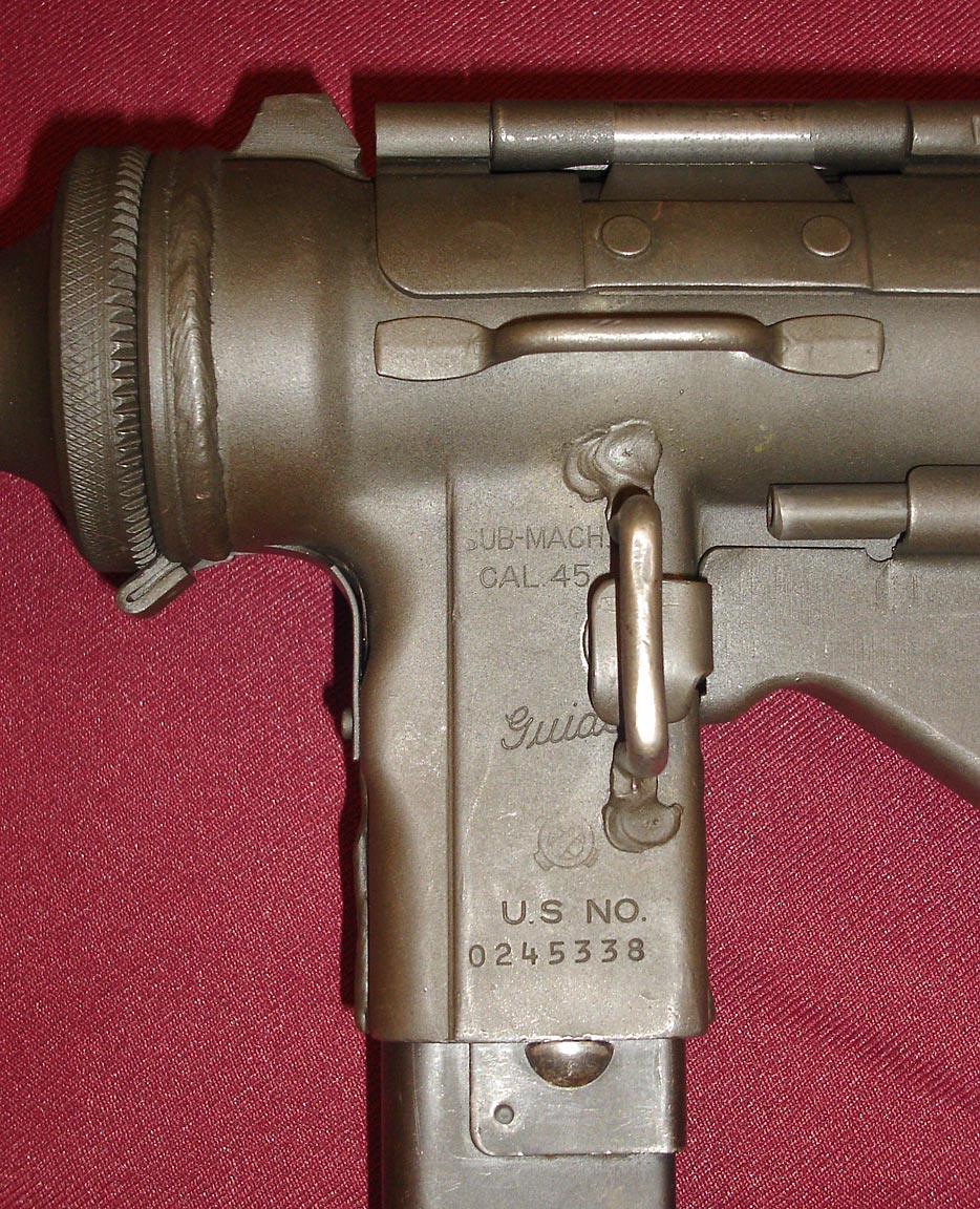 U.S. M3 Submachinegun manufactured by Guide Lamp, a division of General Motors